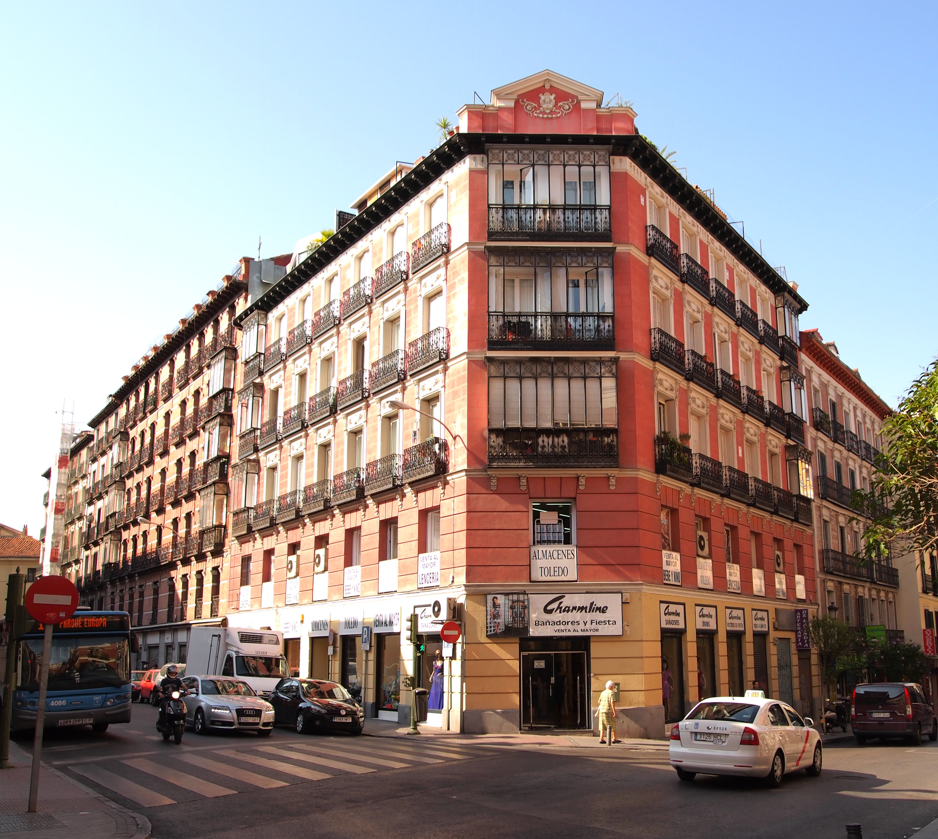 A red house on the cross of the streets Calle de la Concepción Jerónima and Calle del Duque de Rivas in Madrid. This photograph was taken with a Olympus E-PL1.